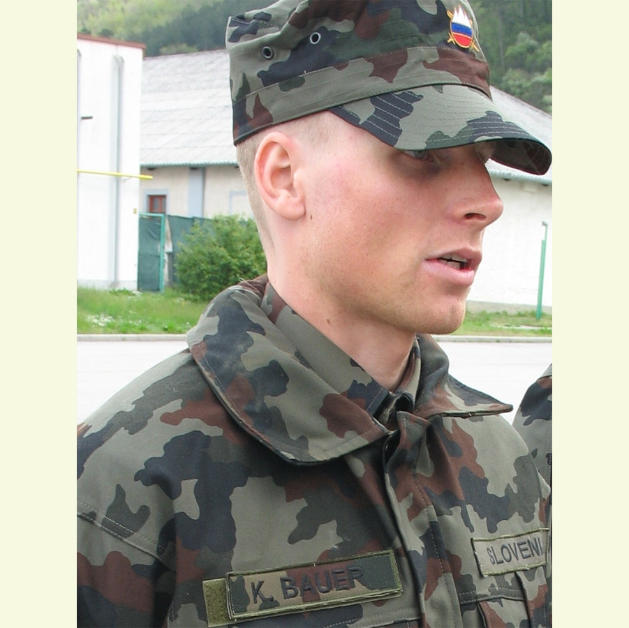 Klemen Bauer in military uniform.